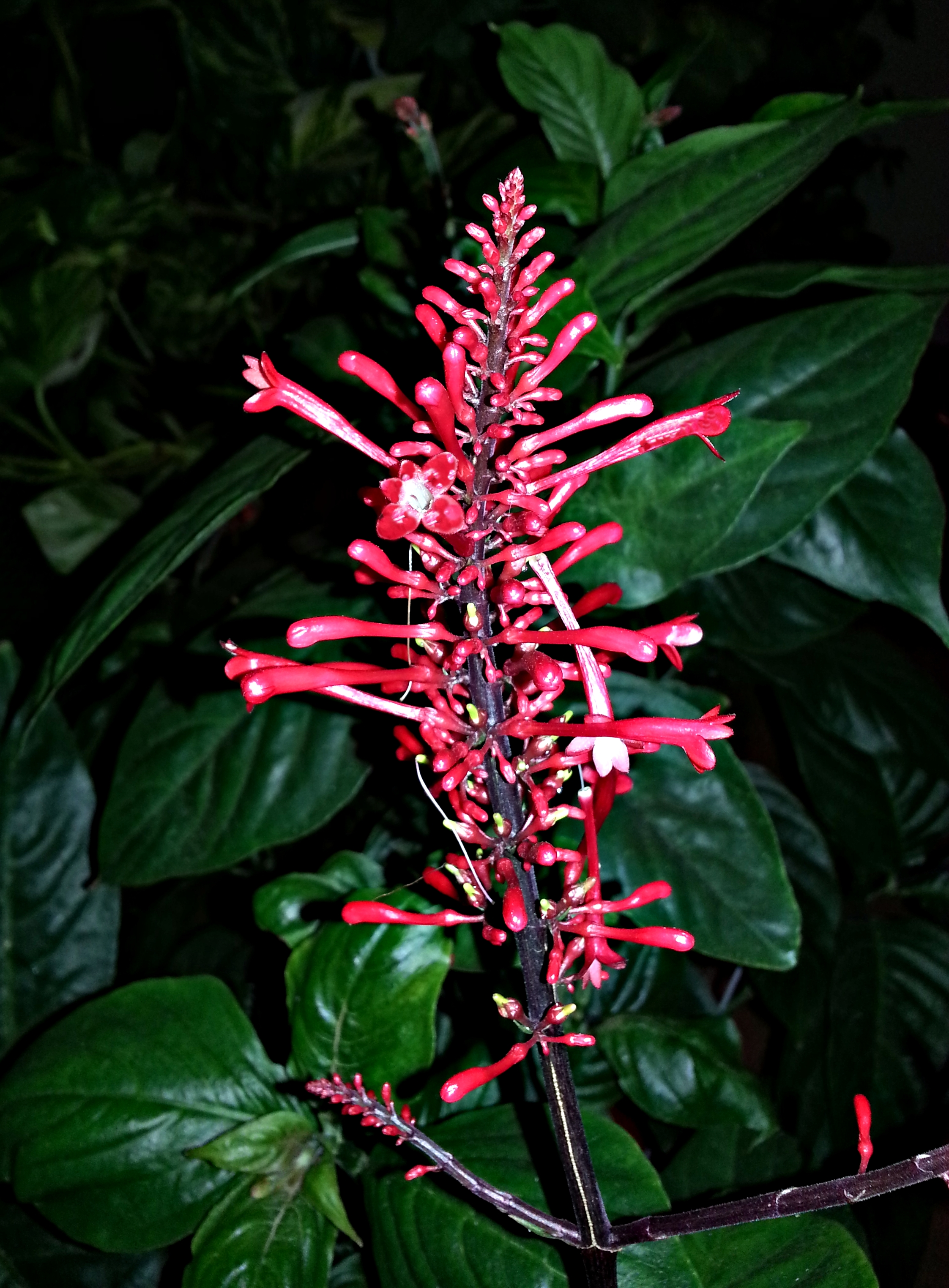 Odontonema cuspidatum (Syn.: Odontonema strictum; Family: Acanthaceae; mottled firespike). Terminal spike of bright red flowers.